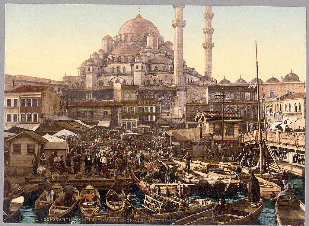 From Library of Congress archive. TITLE: [Yeni Cami mosque and Eminönü bazaar, Istanbul, Turkey] CALL NUMBER: FOREIGN GEOG FILE - Turkey [item] [P&P] REPRODUCTION NUMBER: LC-DIG-ppmsca-03047 (digital file from original) No known restrictions on publication. MEDIUM: 1 photomechanical print : photochrom, color. CREATED/PUBLISHED: [between ca. 1890 and ca. 1900] SUBJECTS: Mosques--Turkey--Istanbul--1890-1900. Bazaars--Turkey--Istanbul--1890-1900. FORMAT: Photochrom prints Color 1890-1900. REPOSITORY: Library of Congress Prints and Photographs Division Washington, D.C. 20540 USA DIGITAL ID: (original) ppmsca 03047 CARD #: 2003653120